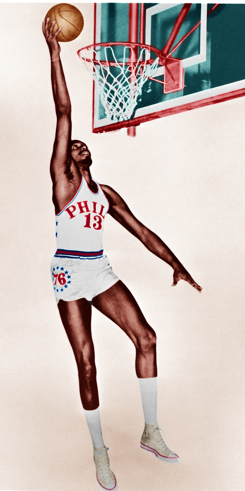 Professional basketball player Wilt Chamberlain playing for Philadelphia Sixers